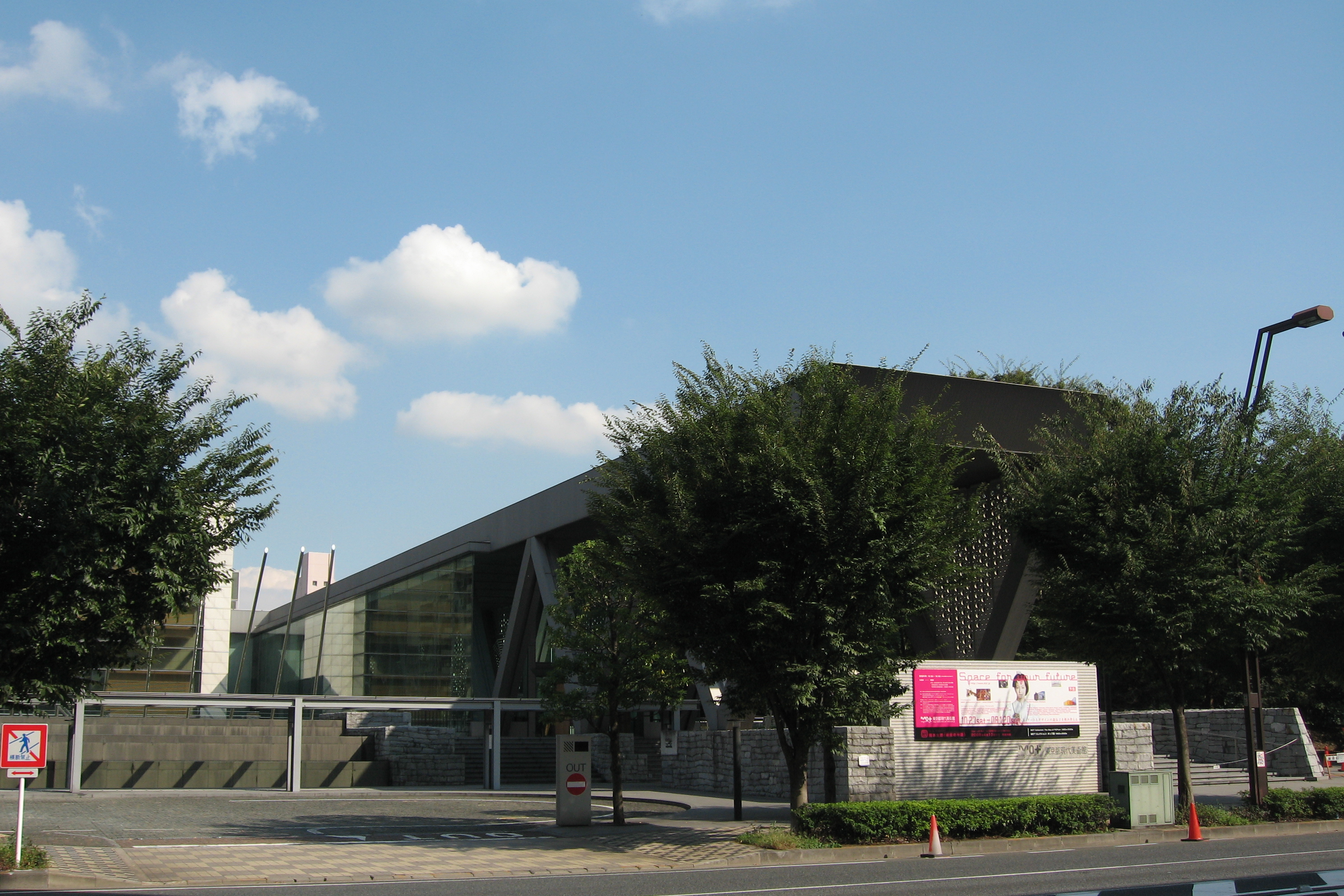 Museum of Contemporary Art Tokyo. 4-1-1 Miyoshi, Koto, Tokyo.